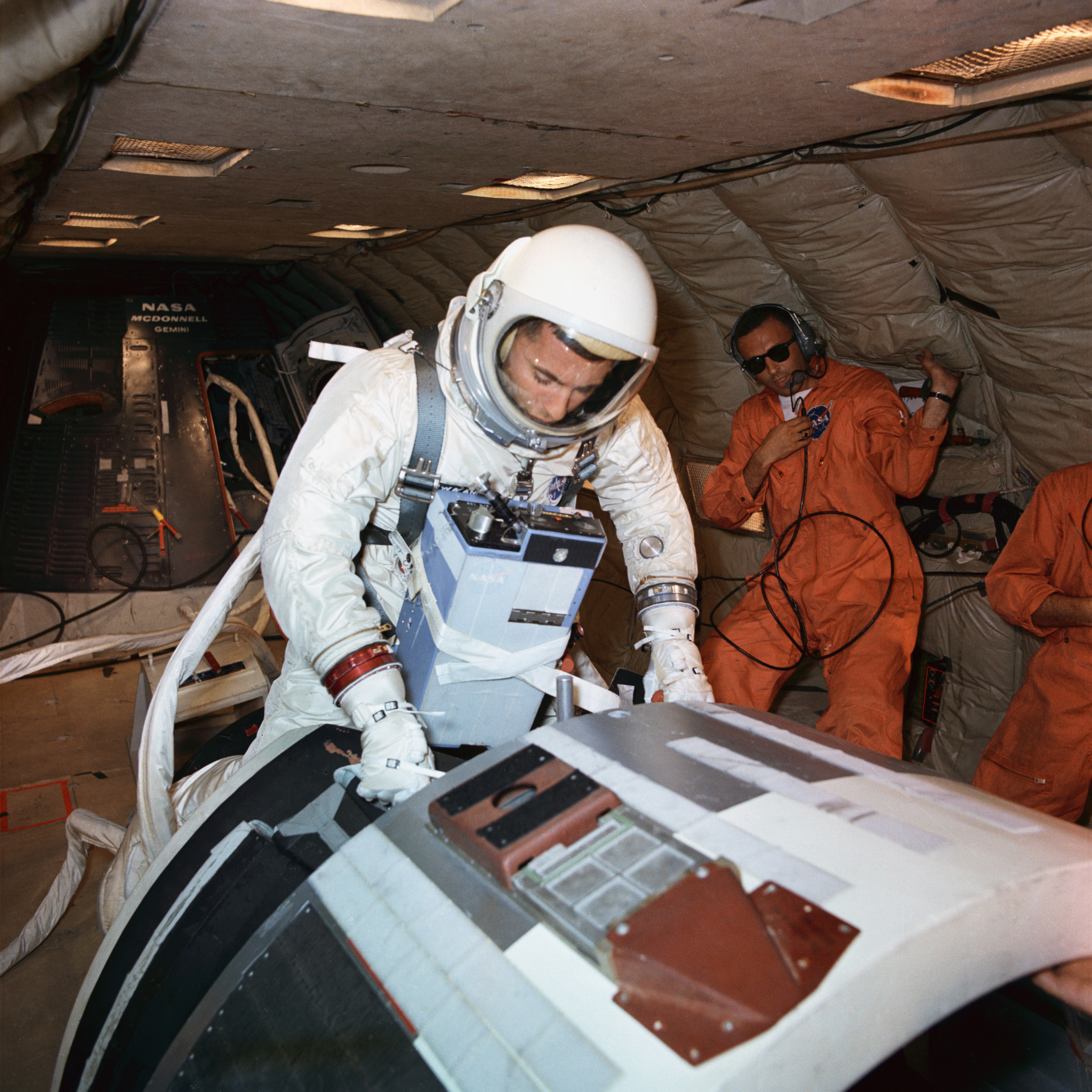 Astronaut William A. Anders, GT-XI Space Flight participates in EVA under zero-gravity conditions aboard a KC-135 aircraft. Wears an Extravehicular Life Support System Chest Pack and gold helmet using a space tool. PATRICK AIR FORCE BASE, FL CN B&W NASA Identifier: S66-47857 Unit: NASA DVIDS Tags: nasa; johnsonspacecentermediaarchive